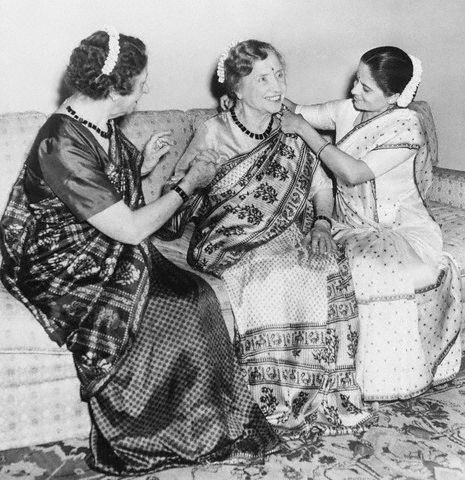 Dr. Helen Keller (center) is assisted by her companion, Polly Thompson (left) and Poornima Pakvasa in the final arrangement of a sari. Dr. Keller, who is blind and deaf and who speaks only with the aid of special equipment, was on a goodwill trip around the world. She wore the sari at a social function in Bombay.